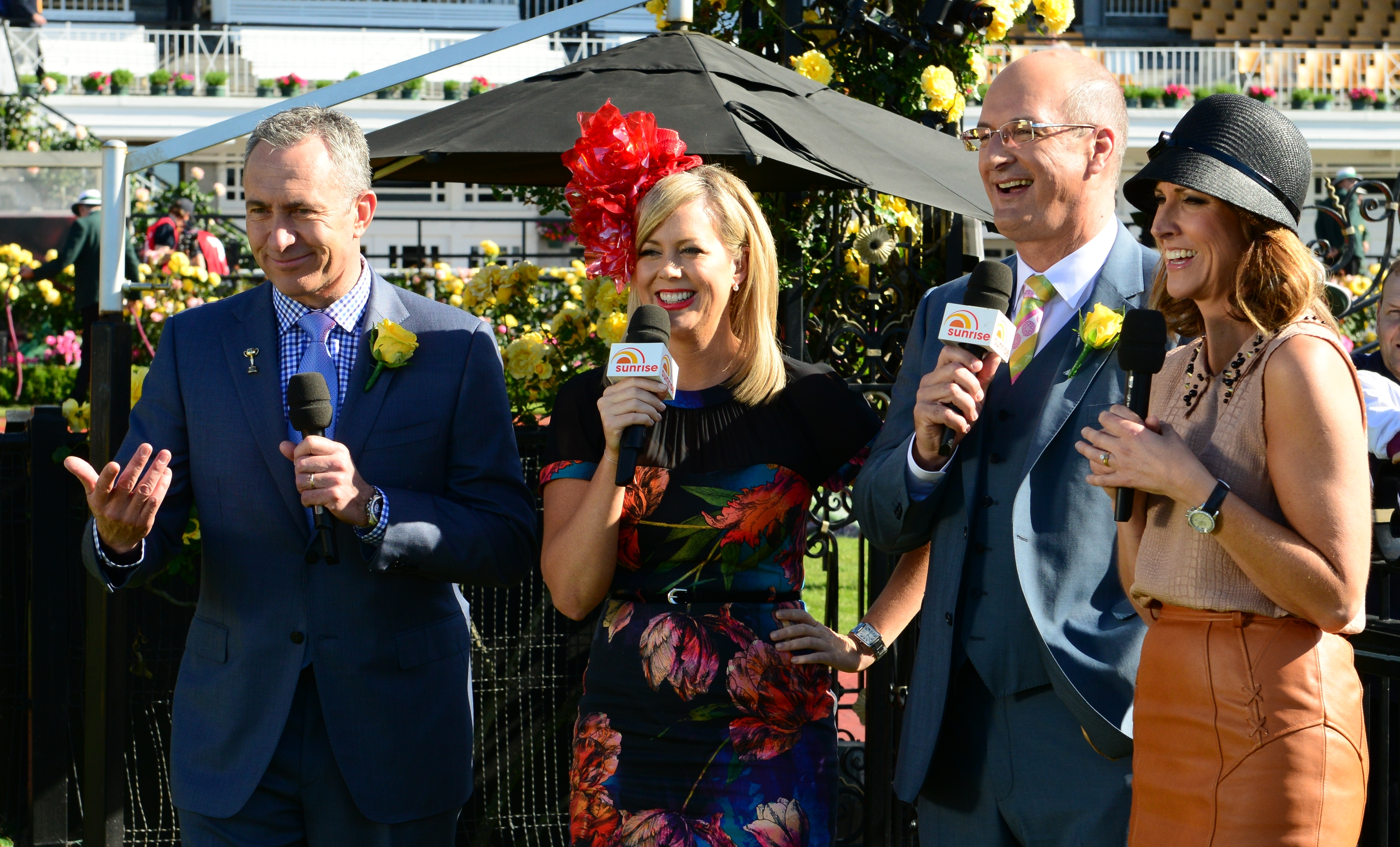 Sunrise team at the 2013 Melbourne Cup